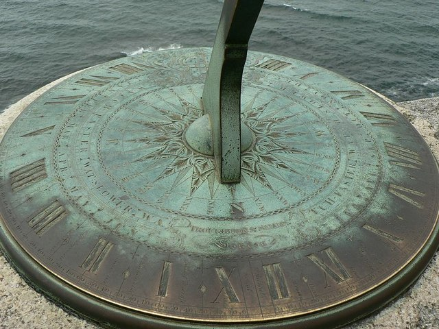 Sundial at St Michael's Mount, Cornwall. This is on the south wall at the top of the castle. Made by Troughton and Simms of London.